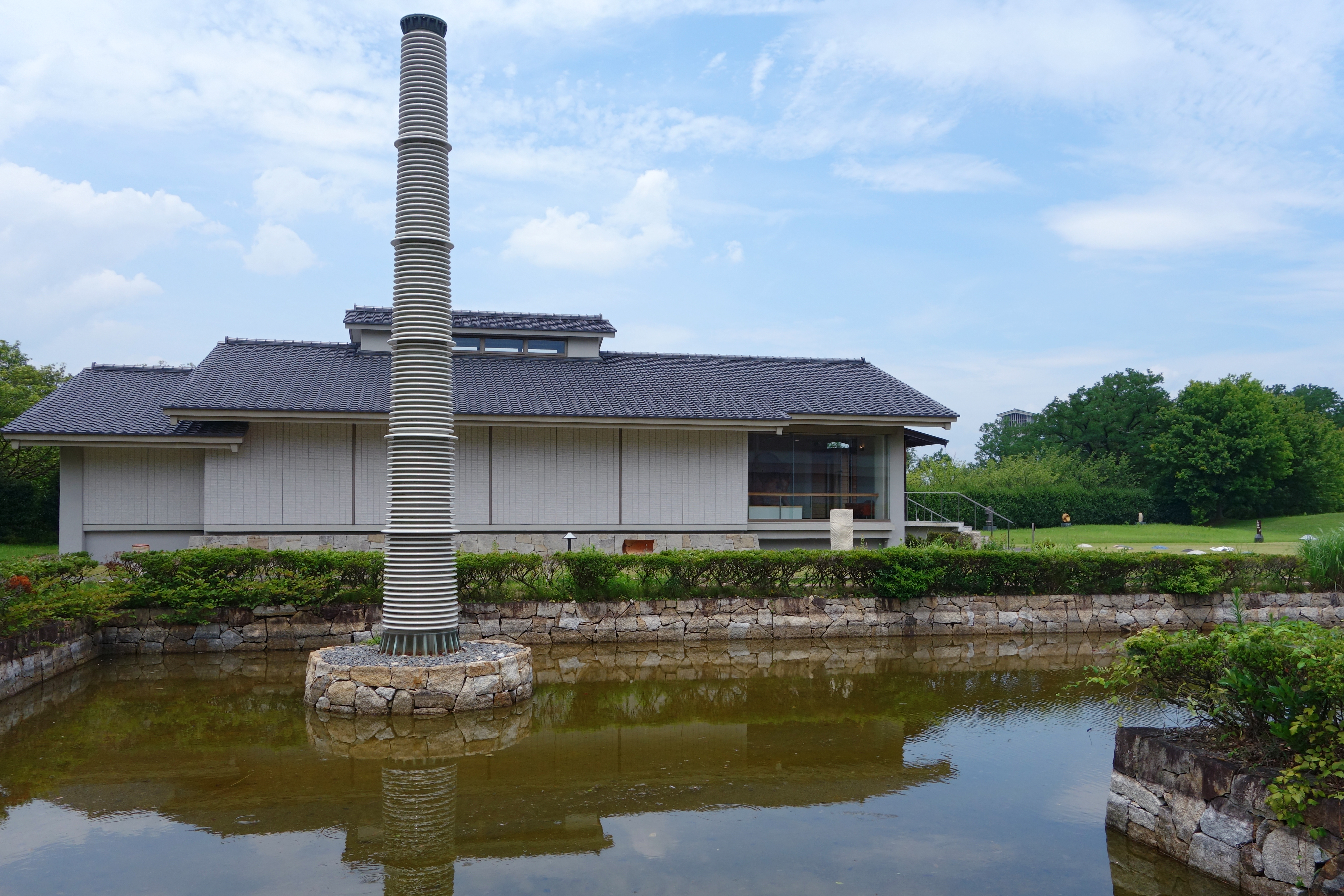 Aichi Prefectural Ceramic Museum (愛知県陶磁美術館), Seto, Aichi prefecture, Japan